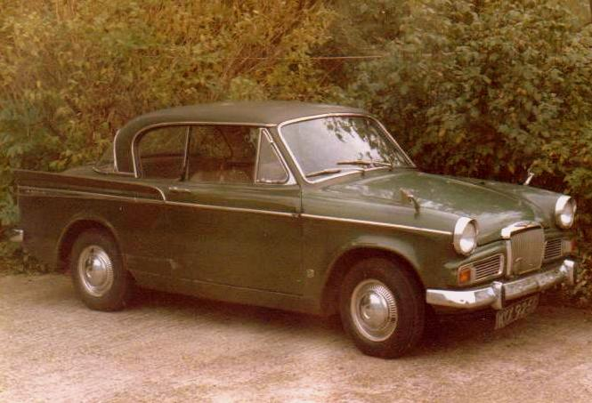 Sunbeam Rapier Series V 1966